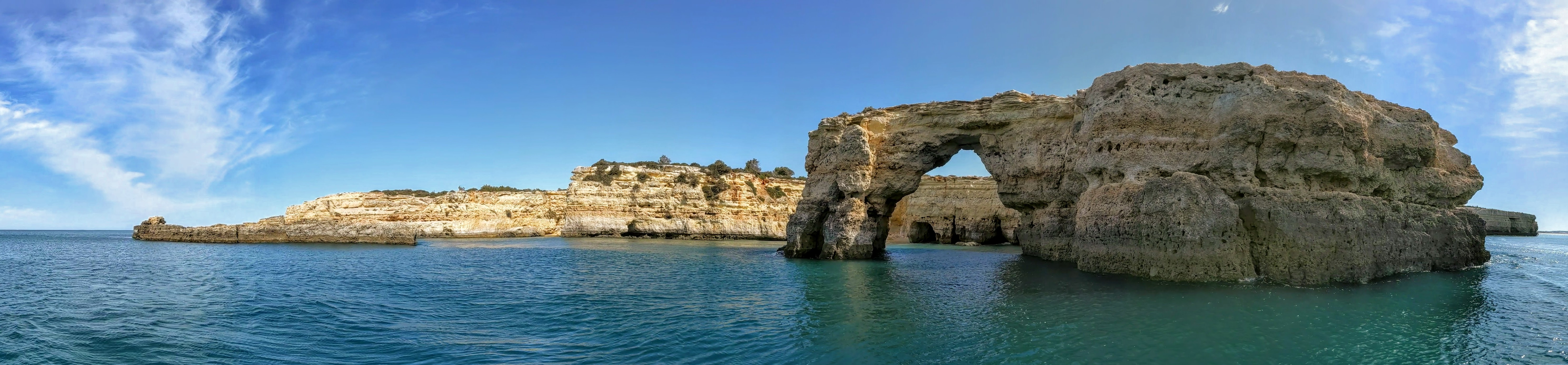 Arco de Albandeira pano from caves tour boat